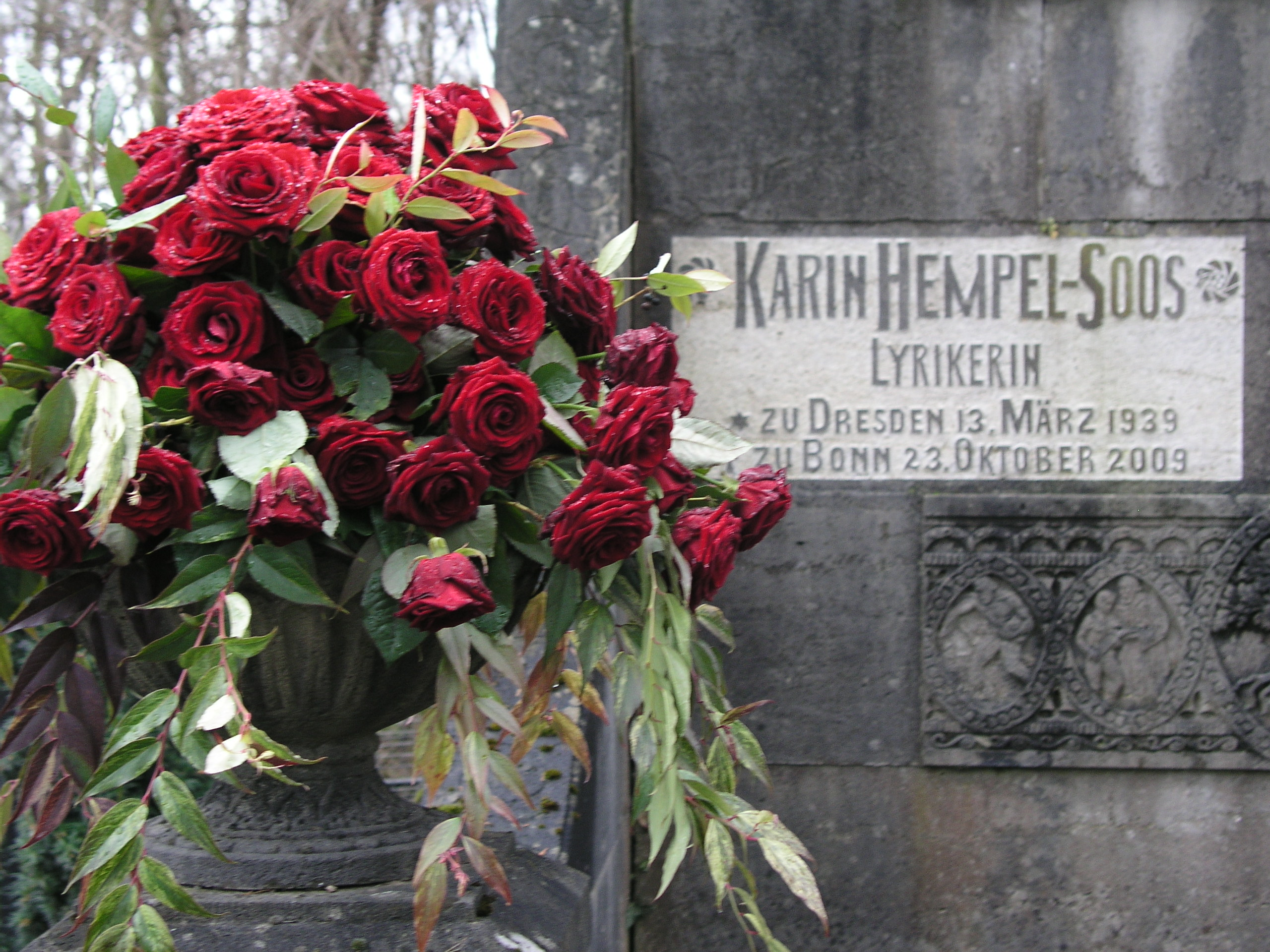 Karin Hempel-Soos, poet, buried in the Poppelsdorfer cemetery in Bonn.